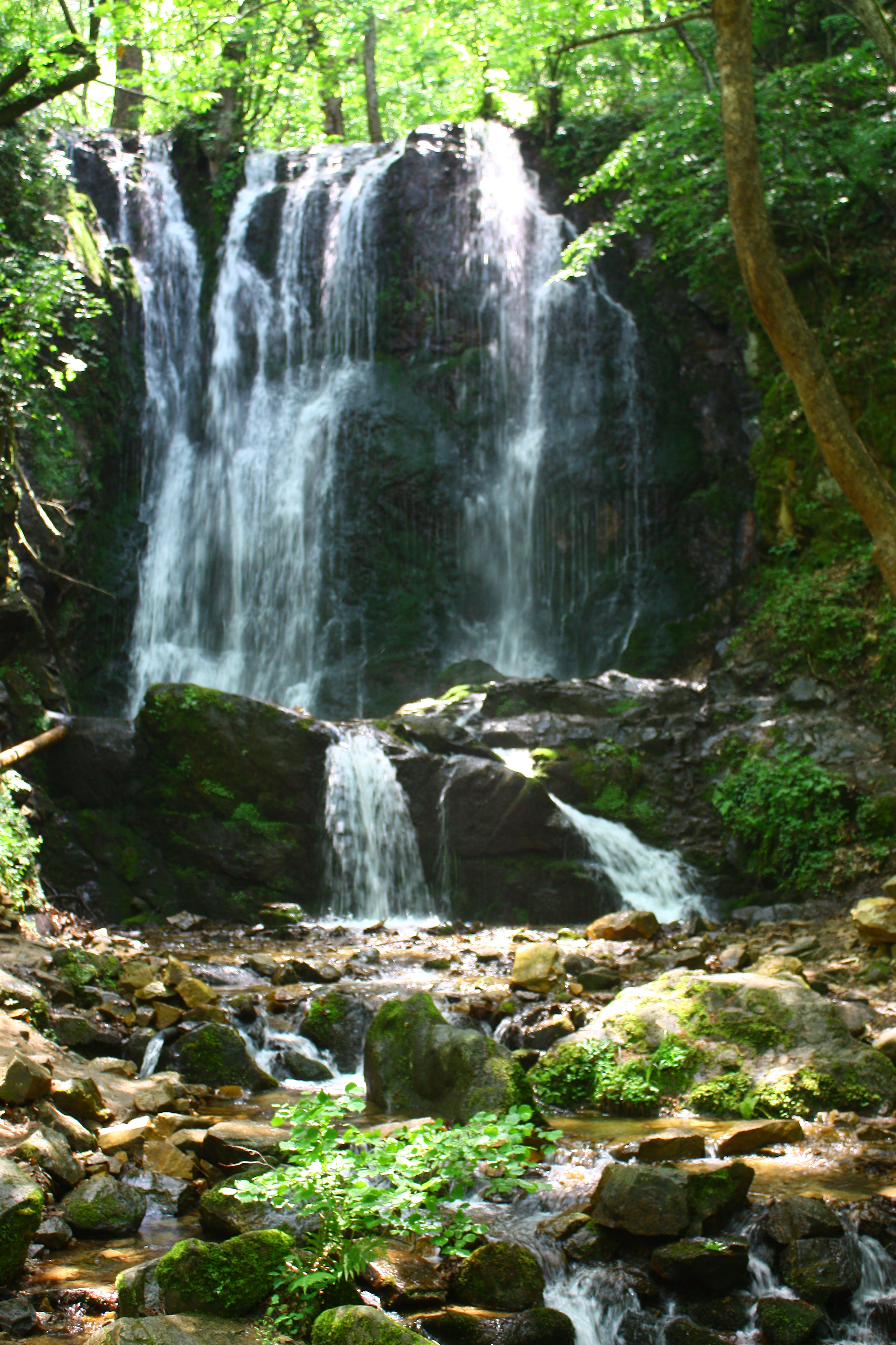 Kolešino Waterfall on Belasica Mountain, Macedonia